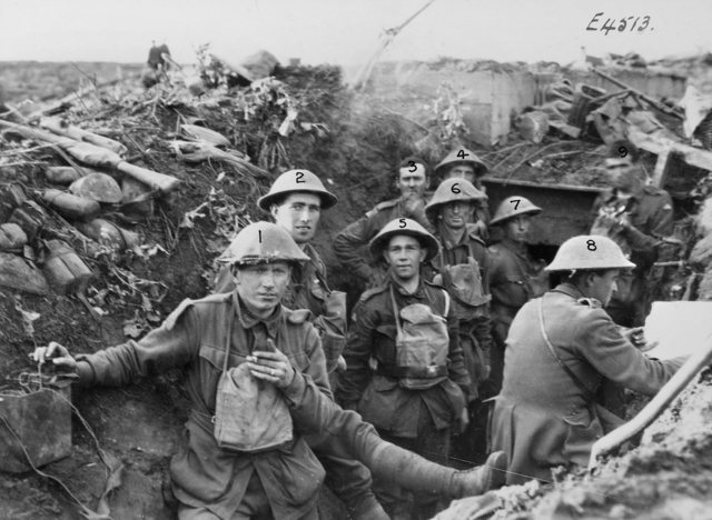 AWM caption : "Broodseinde Ridge, Belgium. 5 October 1917. The Headquarters of the 24th Battalion (2nd Division), established in a dugout on Broodseinde Ridge, the day following the capture of the Ridge. Troops of the 1st, 2nd and 3rd Divisions took a conspicuous part in the operations". Identified : Signaller (Sig) C (E J ?). Bice, 24th Battalion (1) Lieutenant (Lt) E. S. Baldock MC, 24th Battalion (2) Sig R. Mills, 24th Battalion (3) Private Whitbread, runner, 24th Battalion (4) Corporal (Cpl) C. Mitchell DCM MM, 24th Battalion (5) unidentified 19th Battalion runner (6) Sig V. Wallis, 24th Battalion (7) ?Lt, 19th Battalion Signals Officer (8) 82 Cpl Joseph F. Calcutt, 24th Battalion (9)